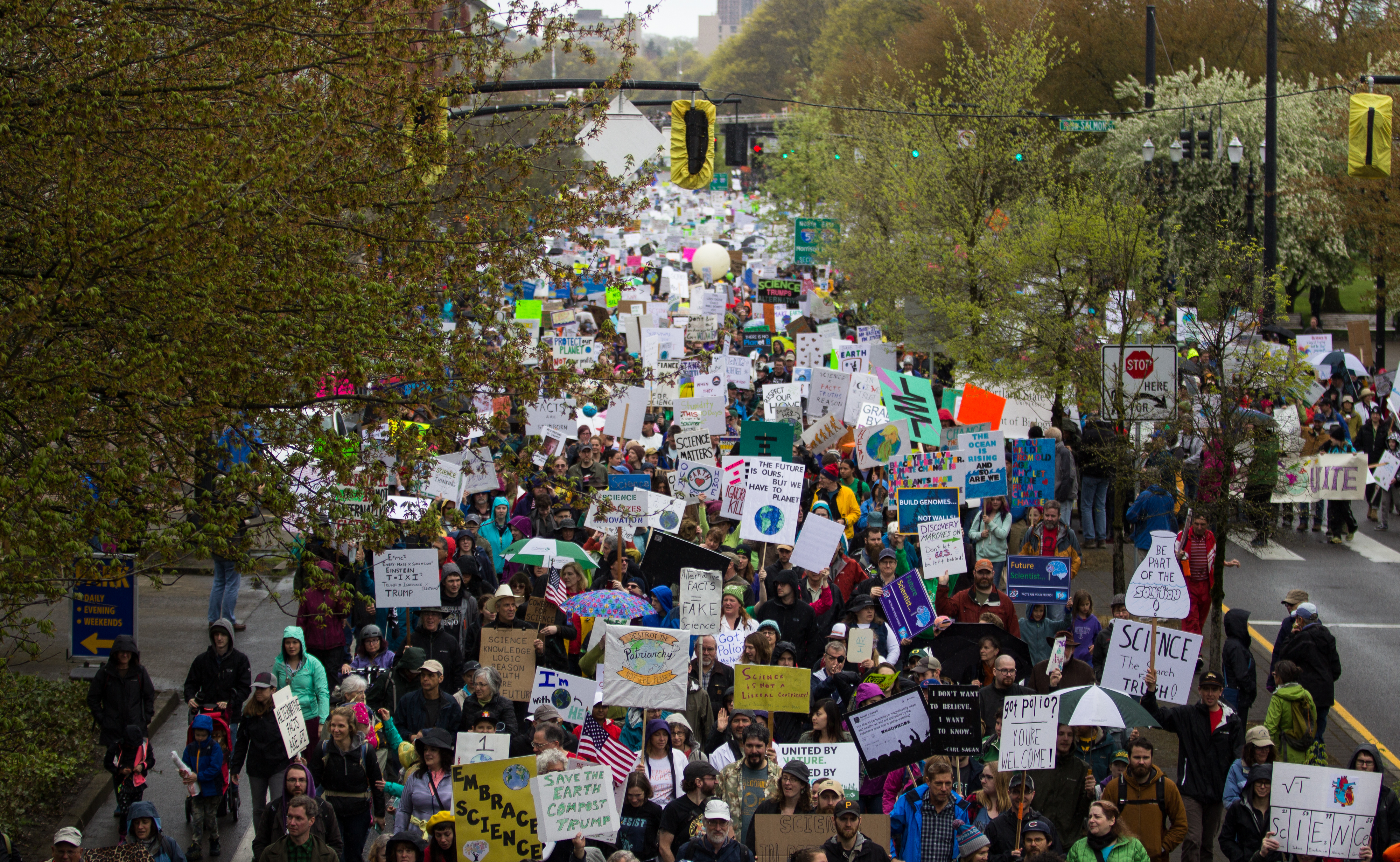 March For Science PDX Portland, OR April 22, 2017